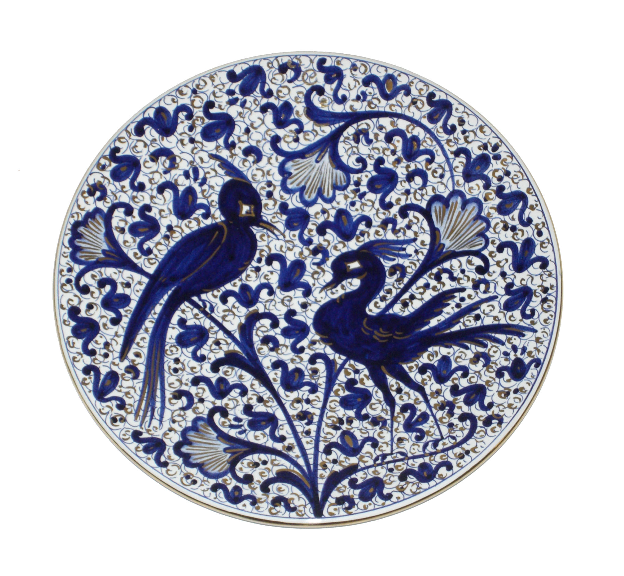 A maiolica plate from the Italian city of Faenza decorated in the celebrated Pomegranate style in blue and gold. In this particular piece, the pomegranate that gives its name to the style is not actually illustrated.